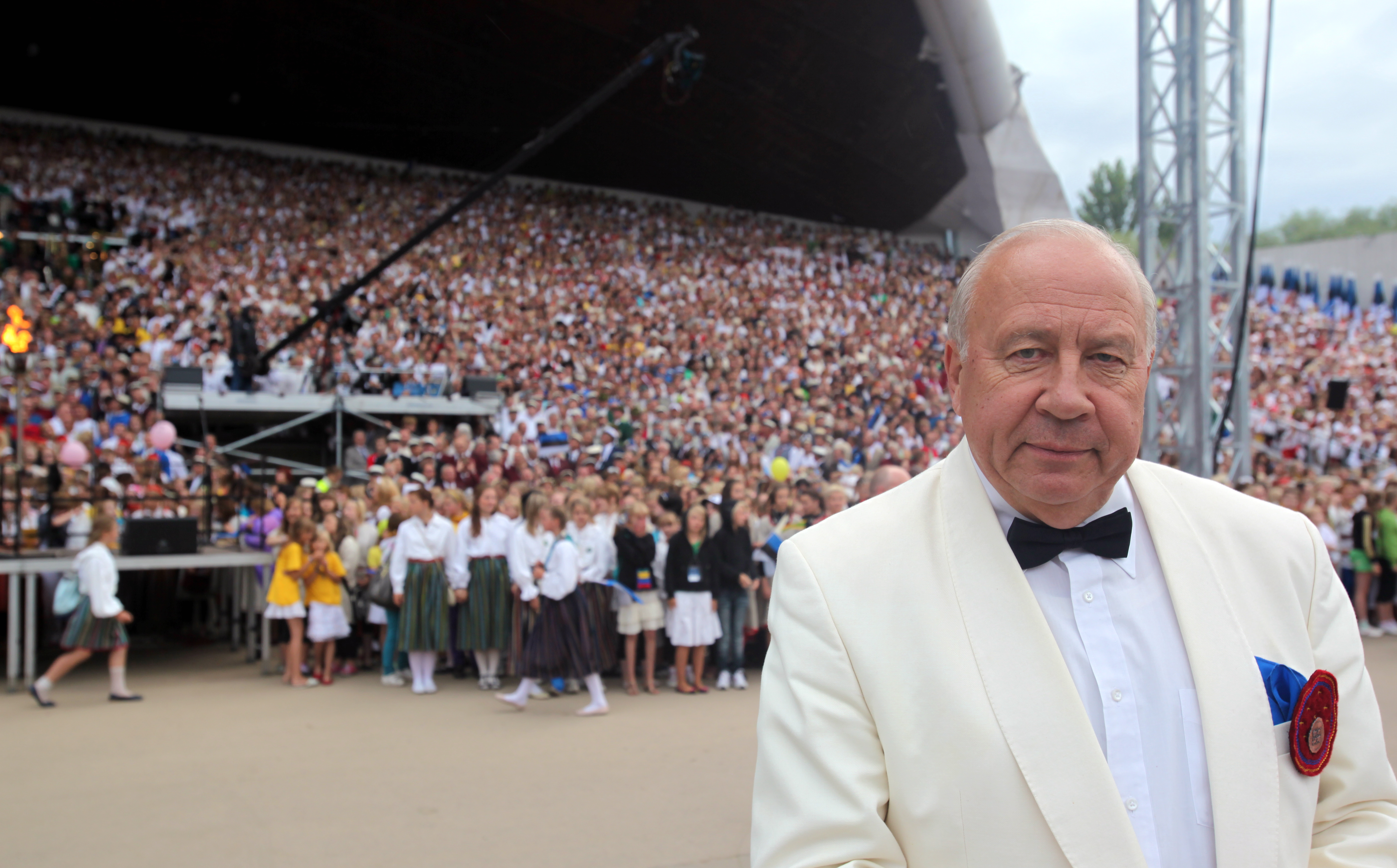 Neeme Järvi is one of the most recorded conductors in world history. Kickoff of Laulupidu XXV this evening in Tallinn Estonia, with about 25 000 singers.